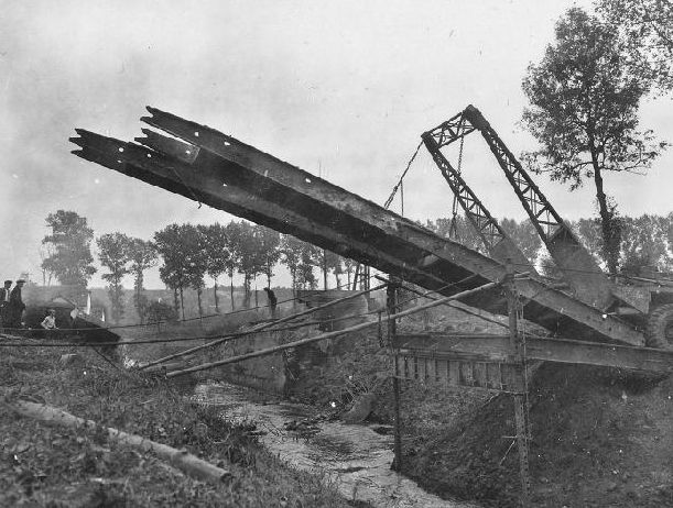 17th Armored Engineer Battalion part of the 2nd Armored Division (United States) "Hell on Wheels" September 18, 1944 built a bridge across the Geleenbeek stream near Kathagermolen